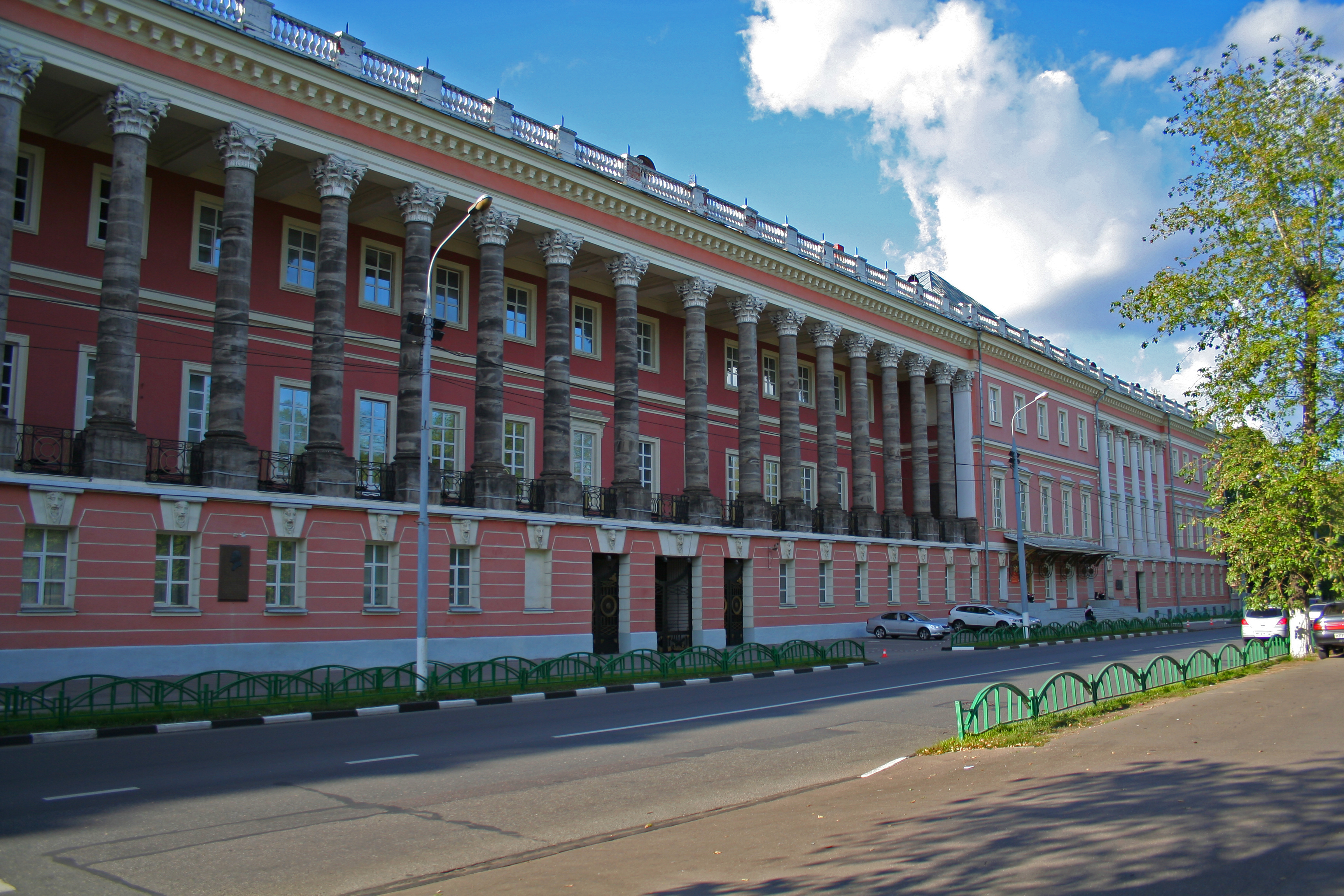 The former Catherine Palace in Moscow. Part of the south-eastern facade.